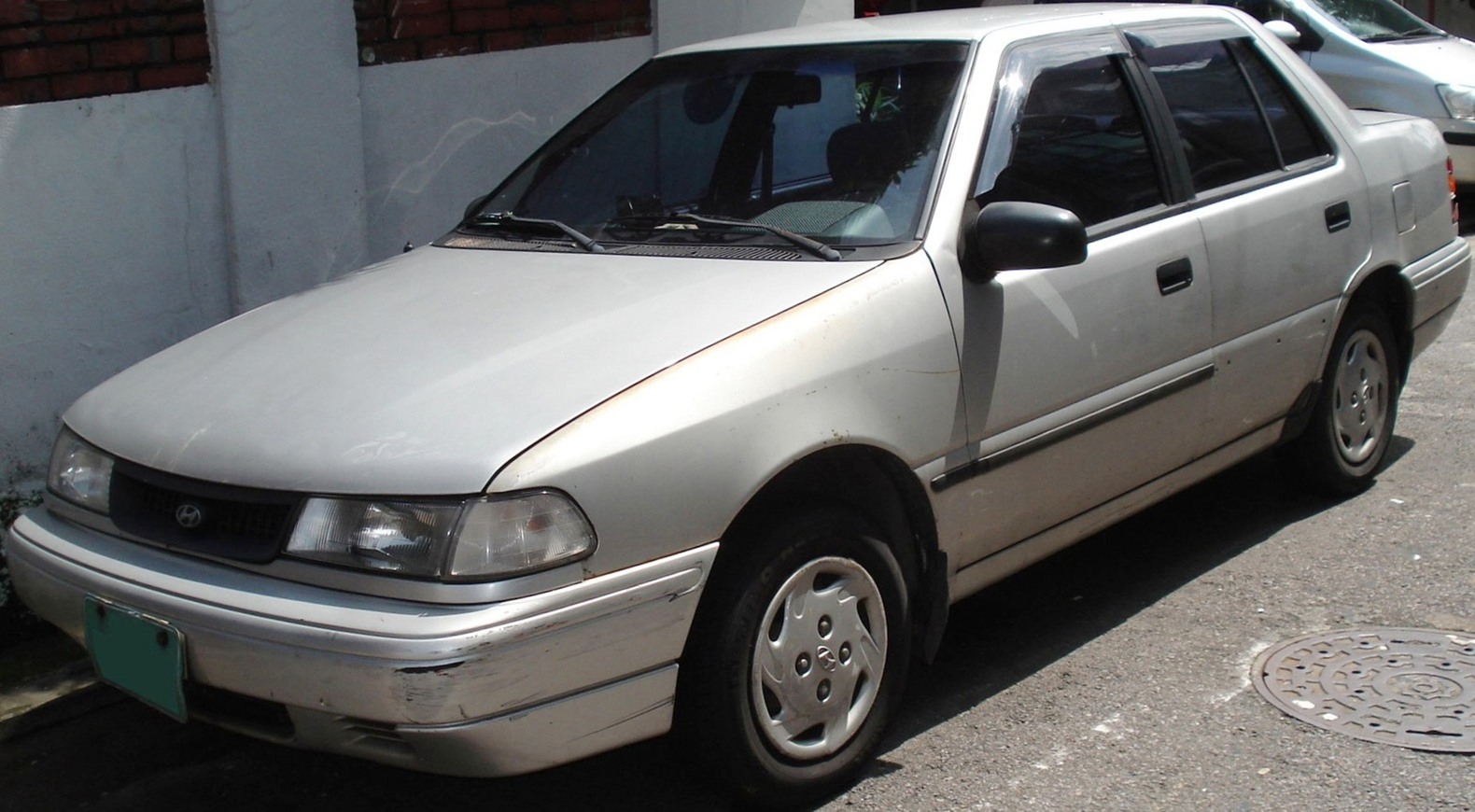 Hyundai New Excel